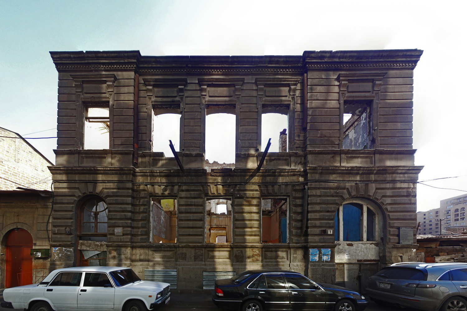 Yerevan, Arami st. 9, House of Fadey Qalantharyan, XX cc.